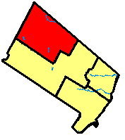 Locator map for Halton Hills, Ontario User talk:Earl Andrew#IMAGES - PLEASE READ